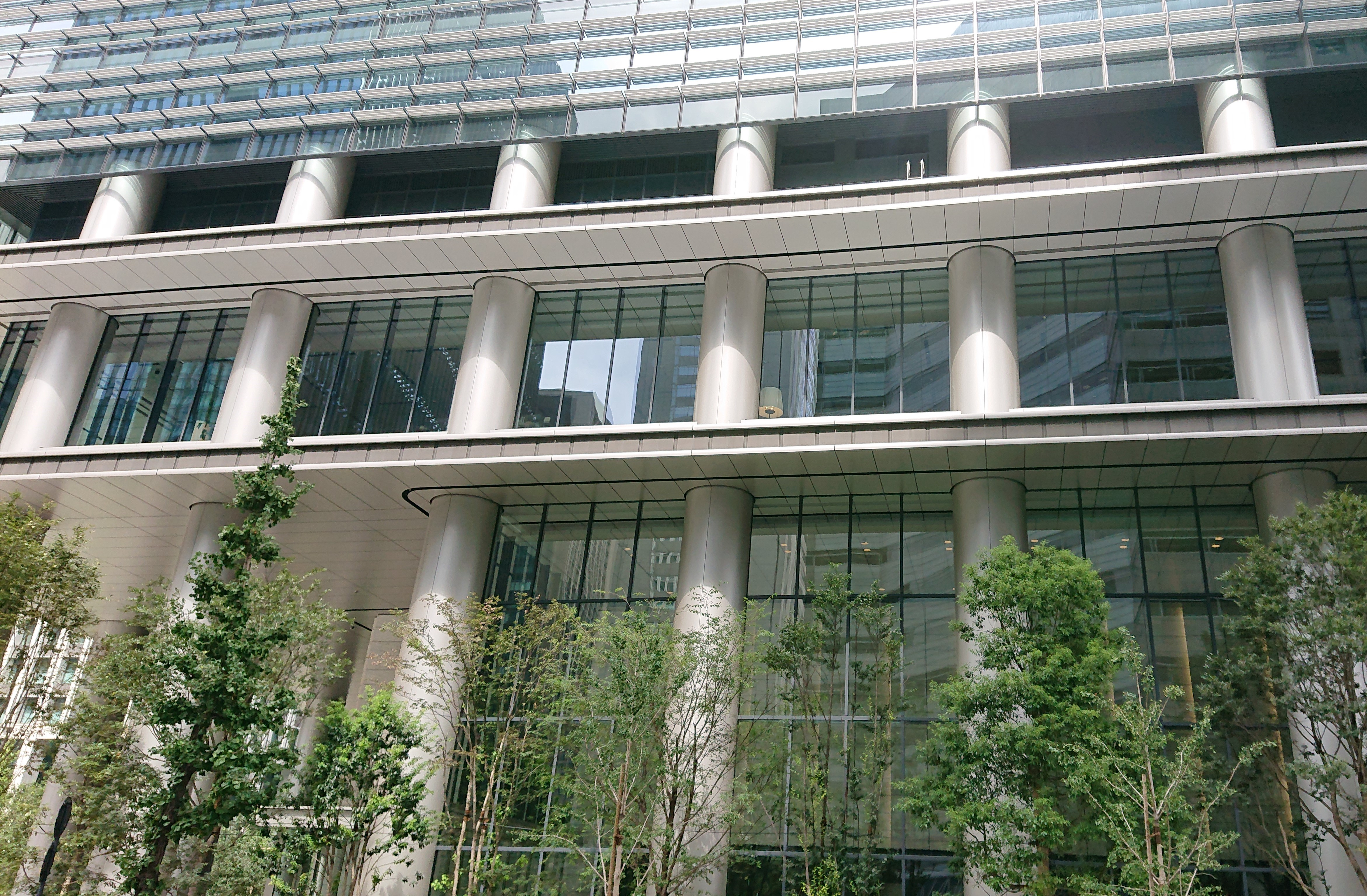 Otemachi